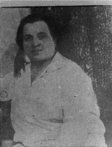 Olga Saisi Kordatou, Greek teacher in Valandovo.